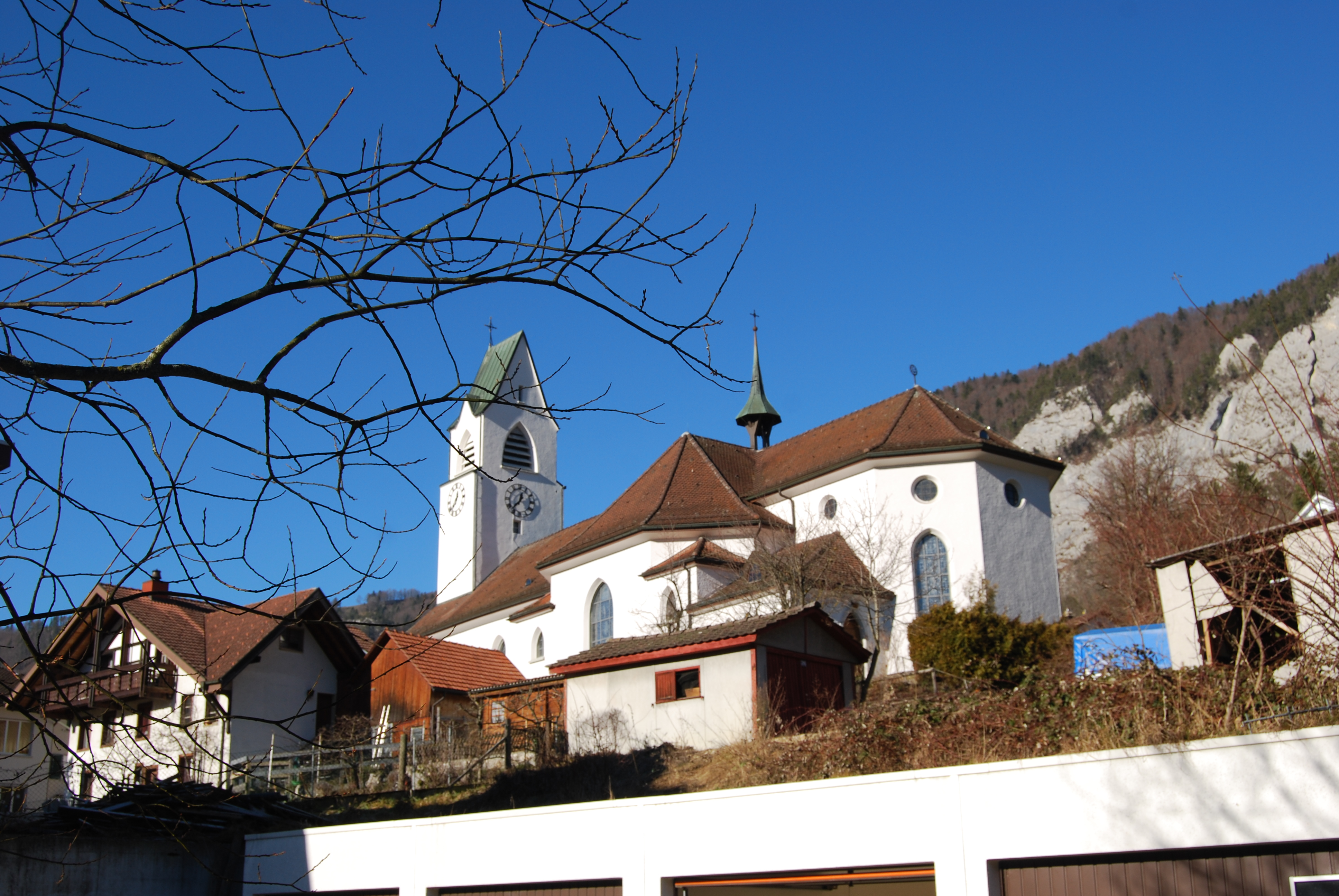 Church of Welschenrohr, canton of Solothurn, SwitzerlandEsperanto: Preĝejo de Welschenrohr, Kantono Soloturno, Svislando